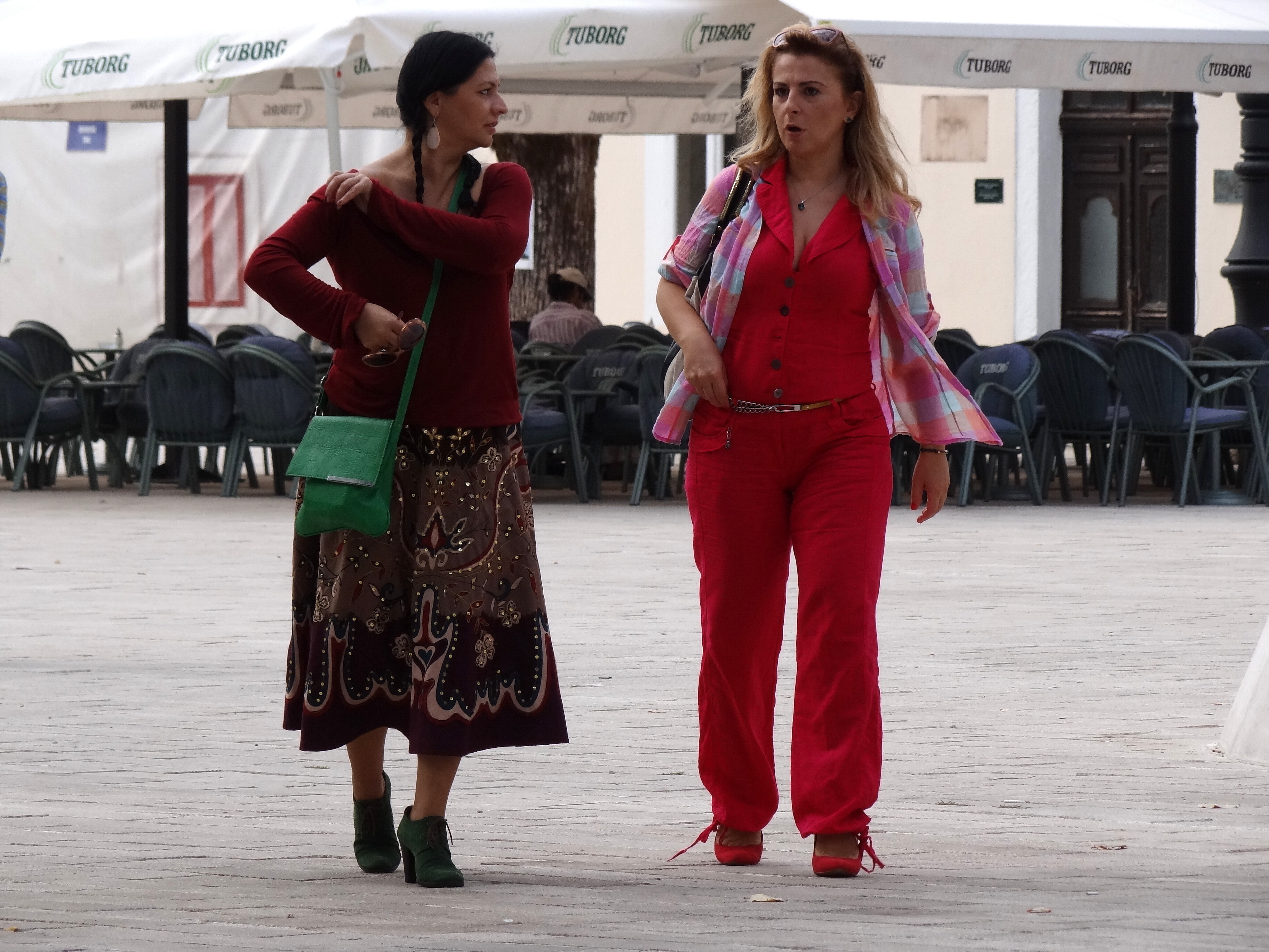 Women Stroll the Strip - Cetinje - Montenegro